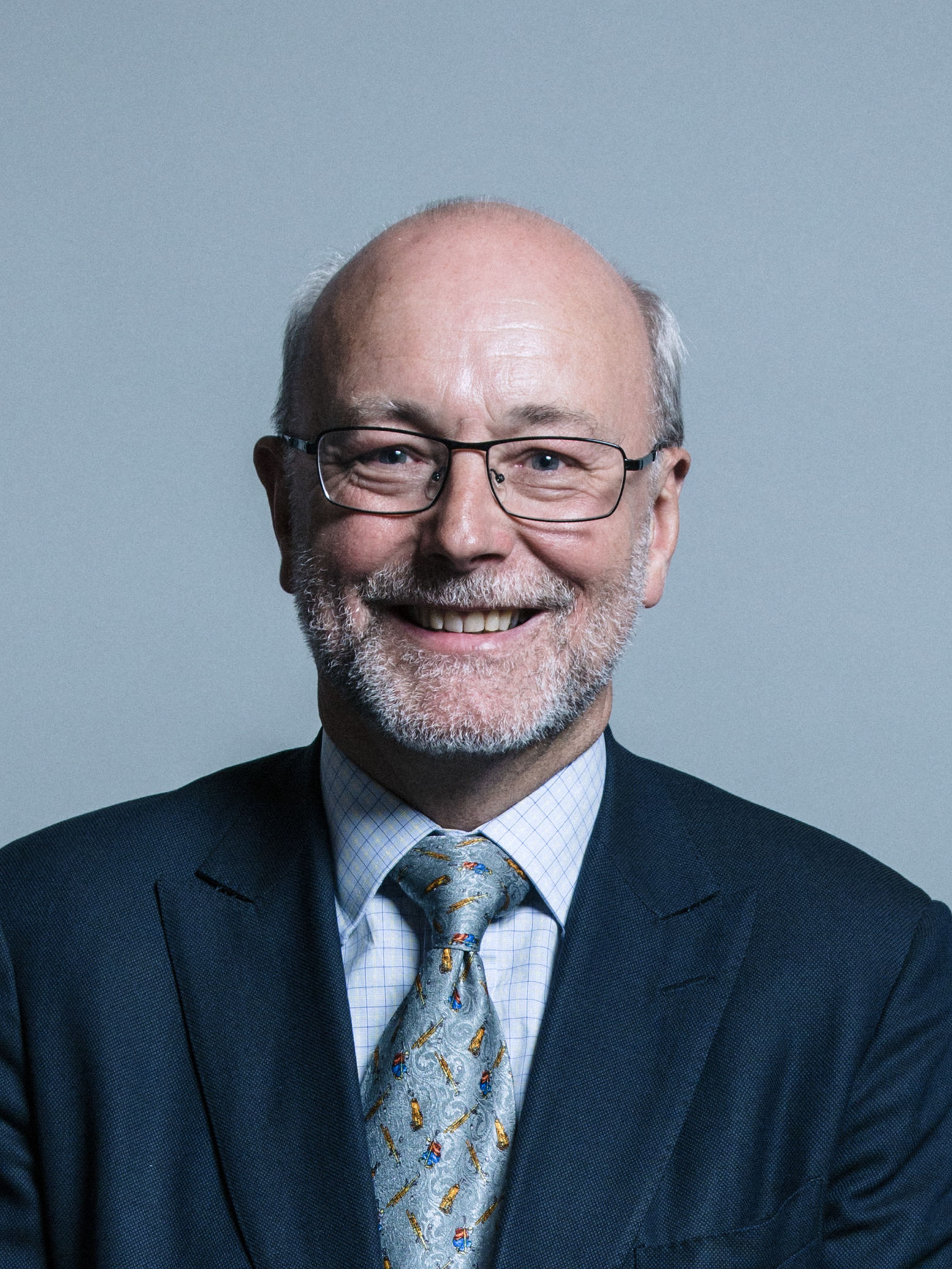 Official portrait of Alex Cunningham